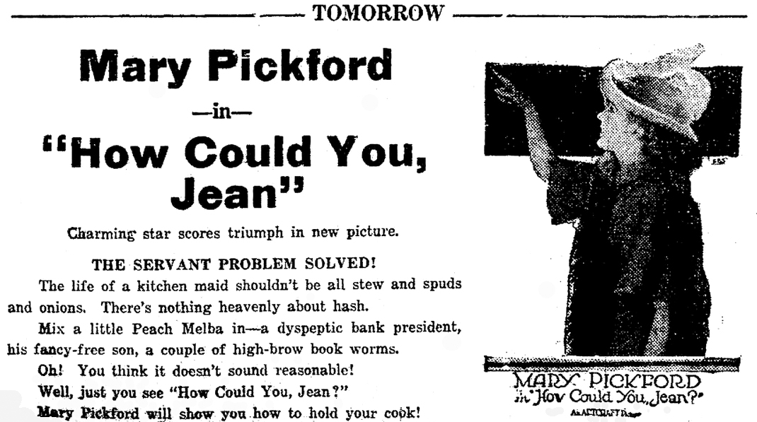 July 5, 1918 advertisement for the Mary Pickford film How Could You Jean?, Hattiesburg American, Hattiesburg, Mississippi.